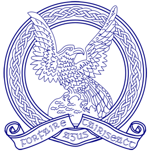 Irish Air Corps Collar Badge